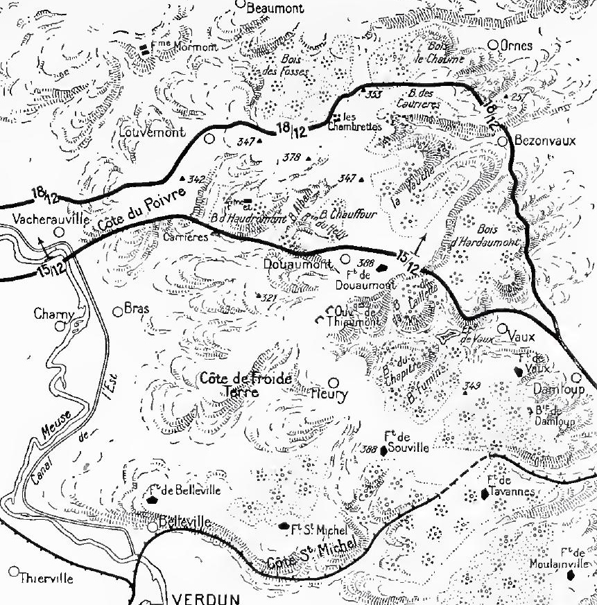 Diagram of French offensive, 15 December 1916